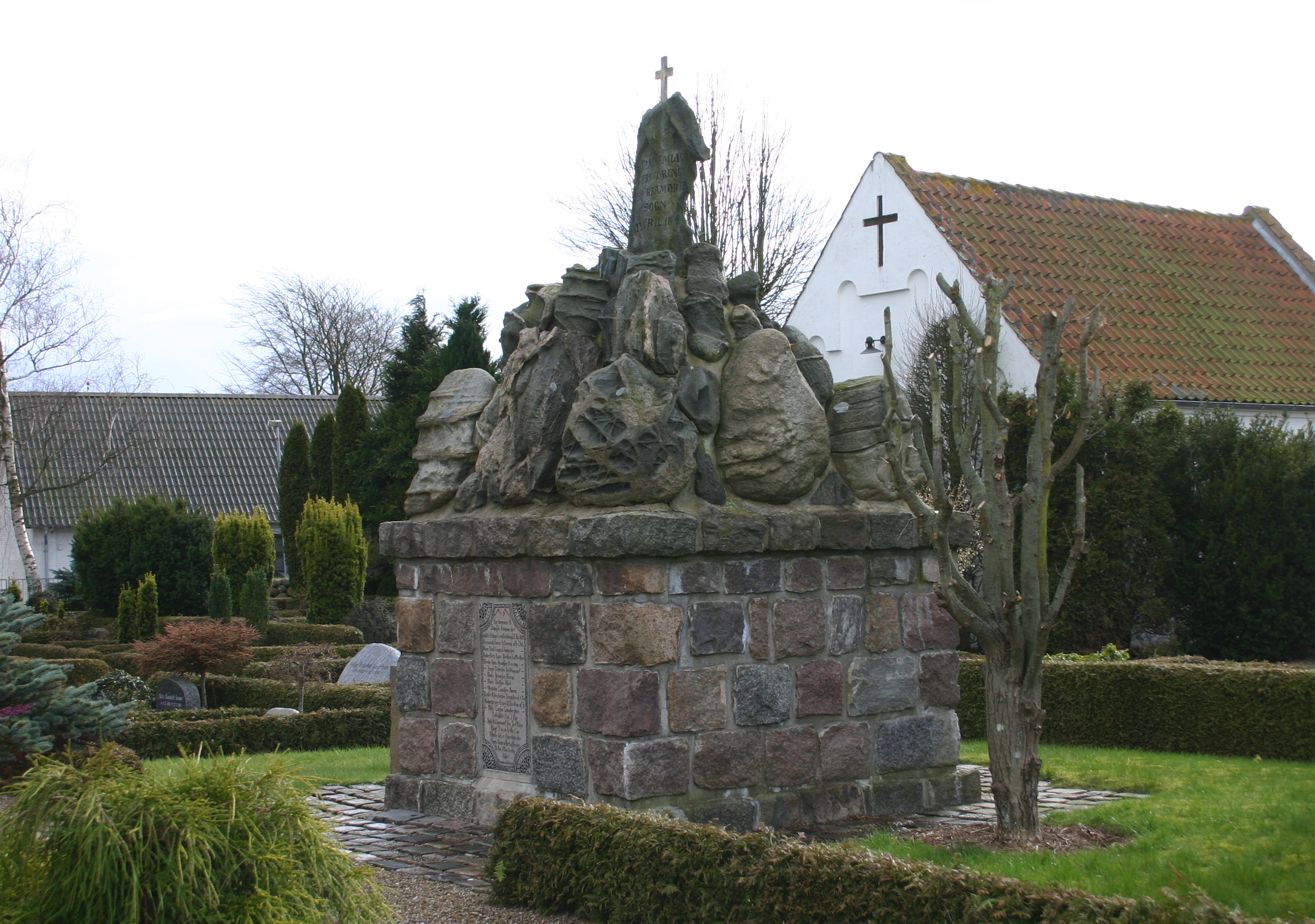 War memorial at Bramdrup church.In memory of the fallen soldiers in the battle of Kolding 1849.It was raised by the citizens of Bramdrup.